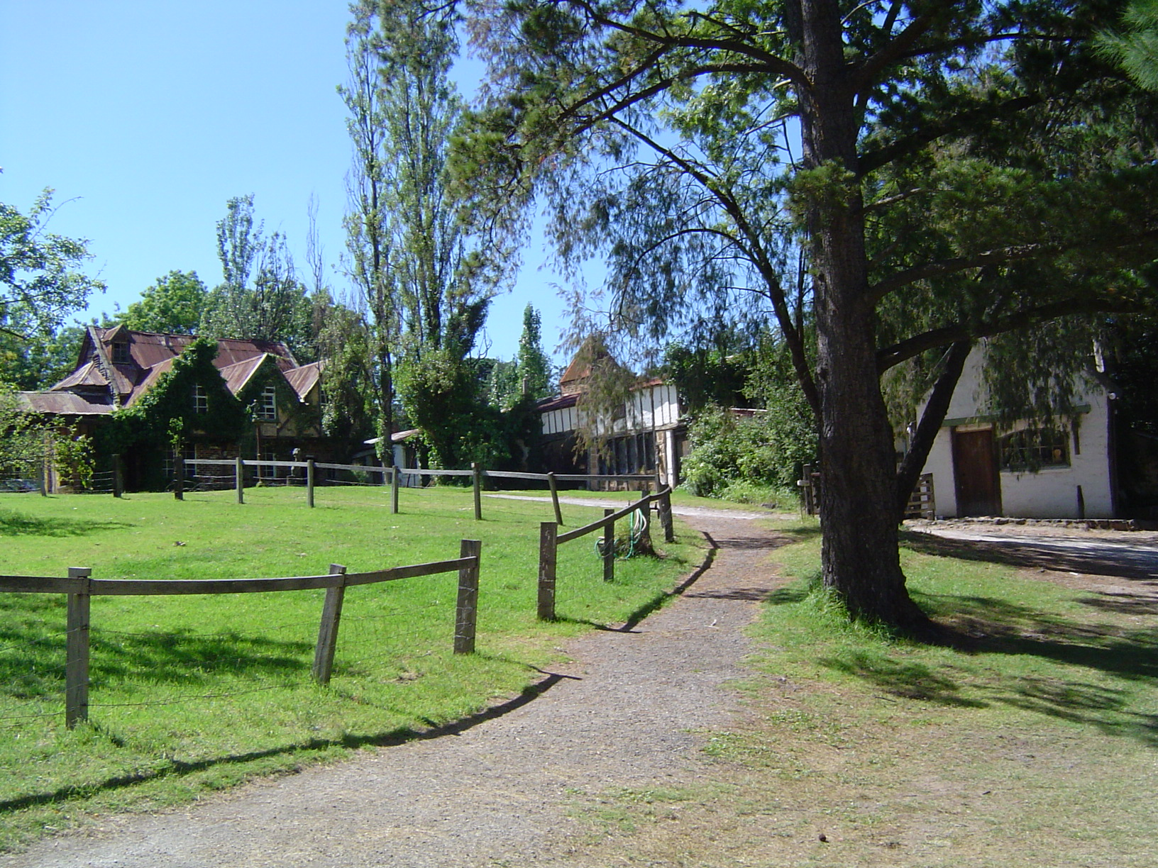 Artist houses in Montsalvat in 2005.